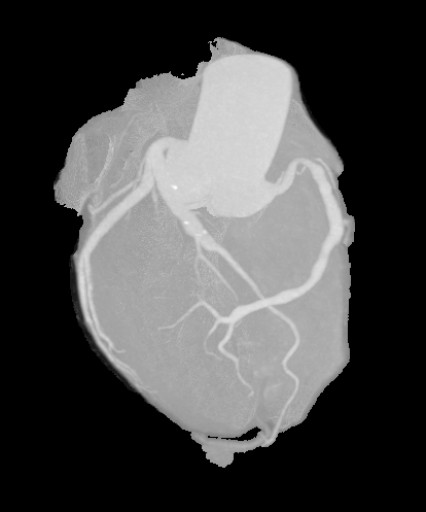 This image is part of a series which can be scrolled interactively with the mousewheel or mouse dragging. This is done by using Template:Imagestack. The series is found in the category Kawasaki disease coronary aneurysms - case 001. Kawasaki-Syndrom: (mäßig ausgeprägte) Aneurysmen der Koronarien bei einem 50-jährigen, der in der Kindheit an einem Kawasaki-Syndrom erkrankt war. - 3D-Rekonstruktion in MIP aus einem Cardio-CT-Datensatz.